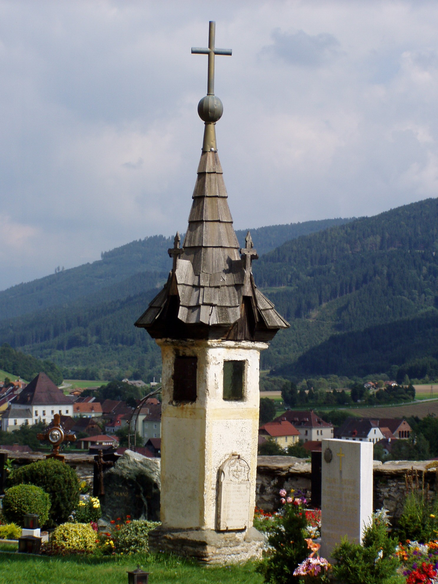 Lieding, sanctuary light in the cemetery